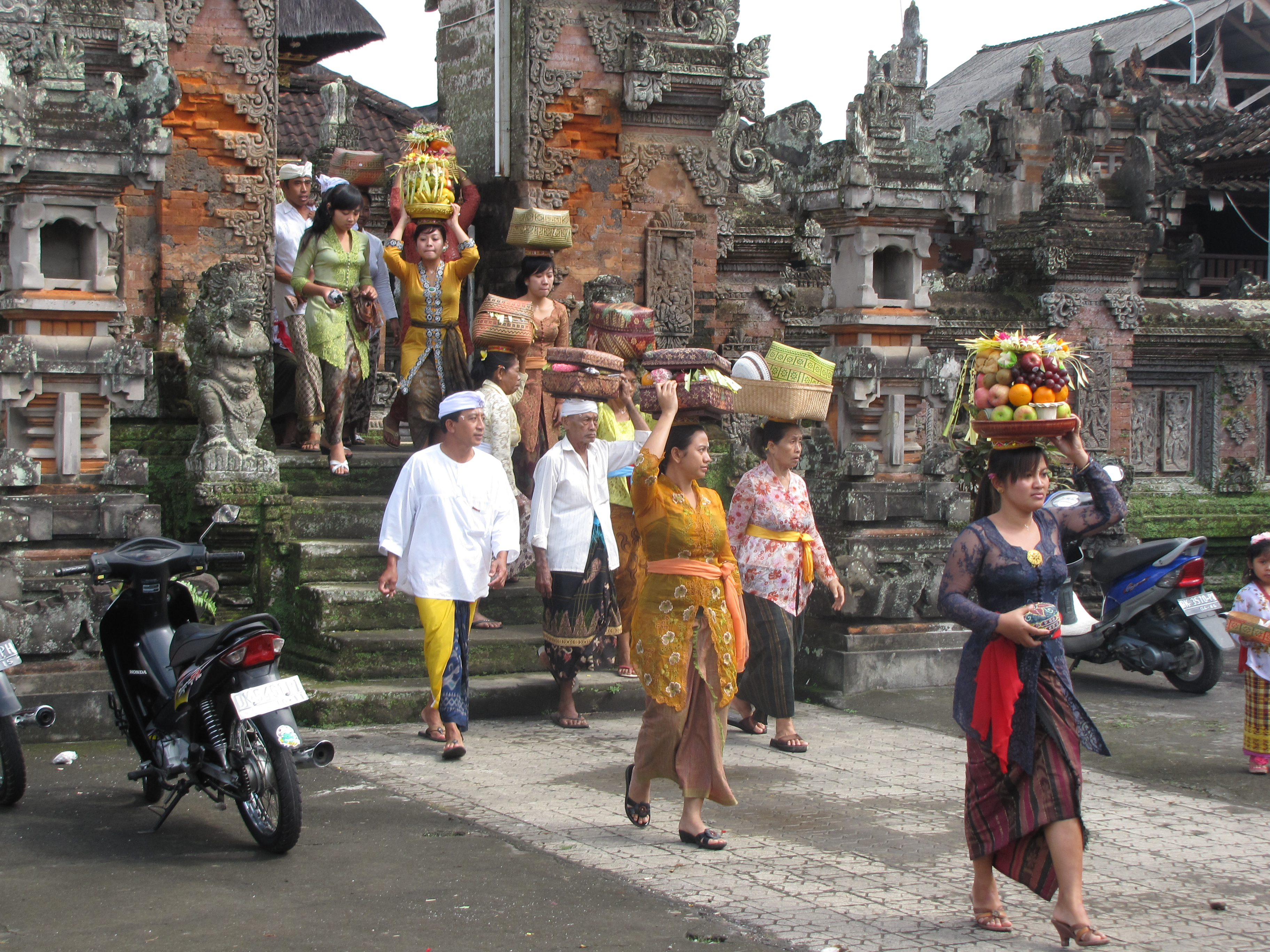 Leaving a temple--Kuningan celebration at end of Galungan festival